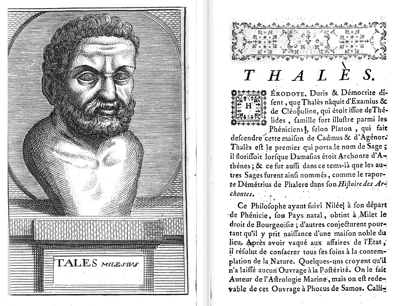 Thales of Miletus, from Diogenes Laertius' Lives, 1761, France